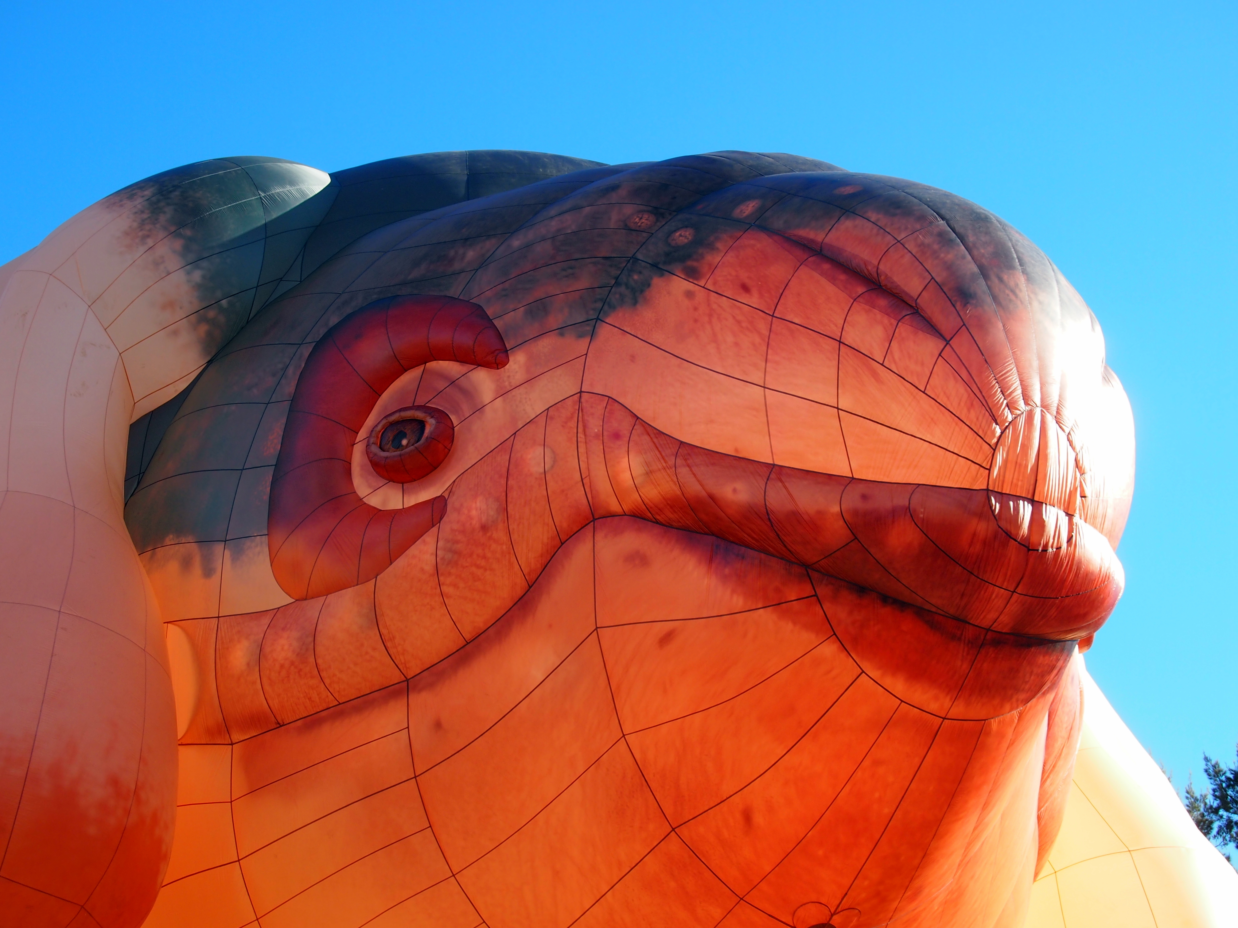 The face of the balloon "Skywhale" designed by Patricia Piccinini shortly before taking off on its first flight over Canberra